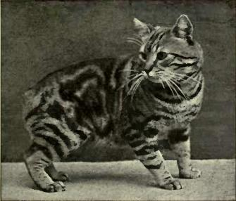 Manx classic tabby MRS. H. C. BROOKE'S MANX, "KATZENJAMMER.